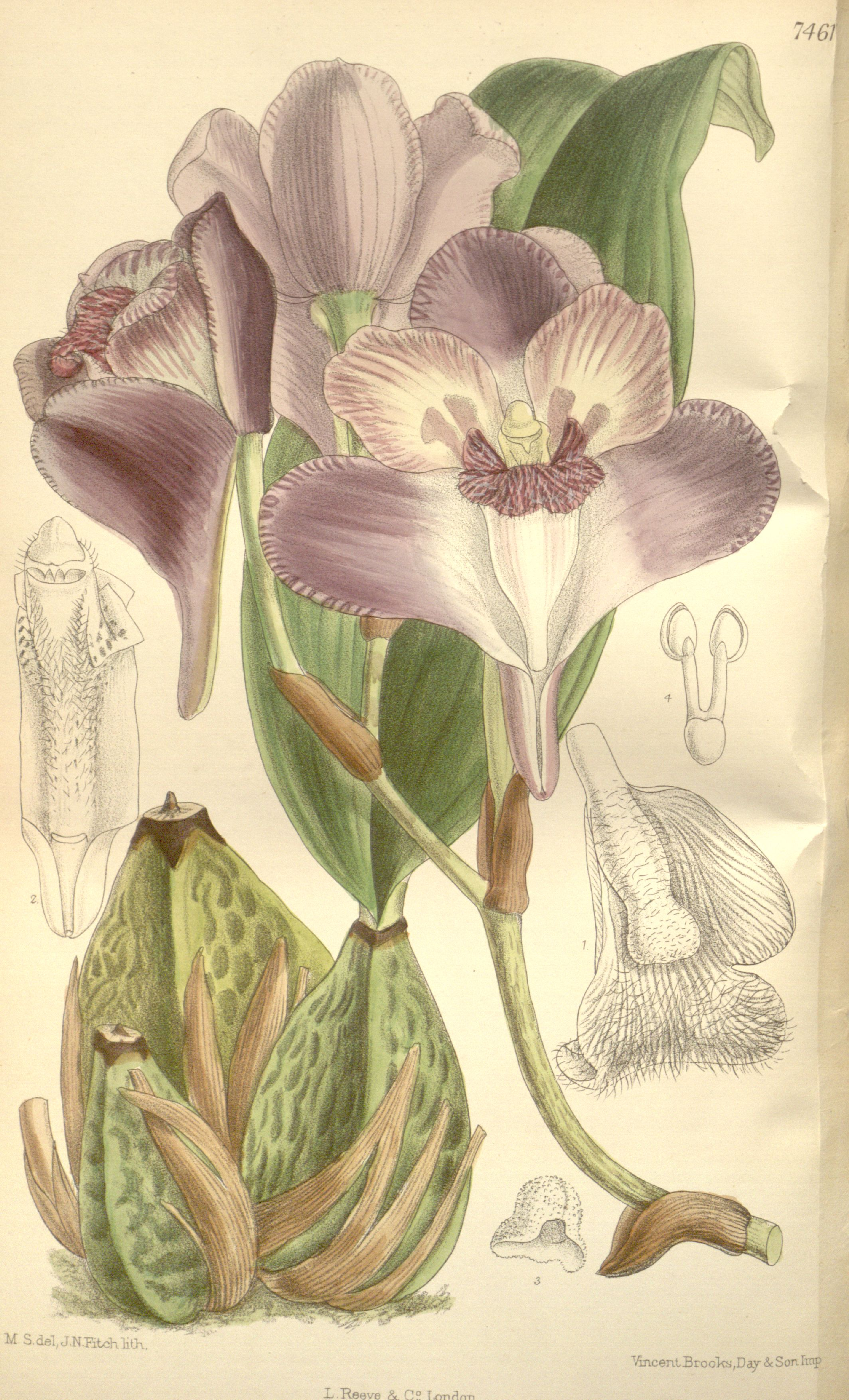 Illustration of Bifrenaria tyrianthina